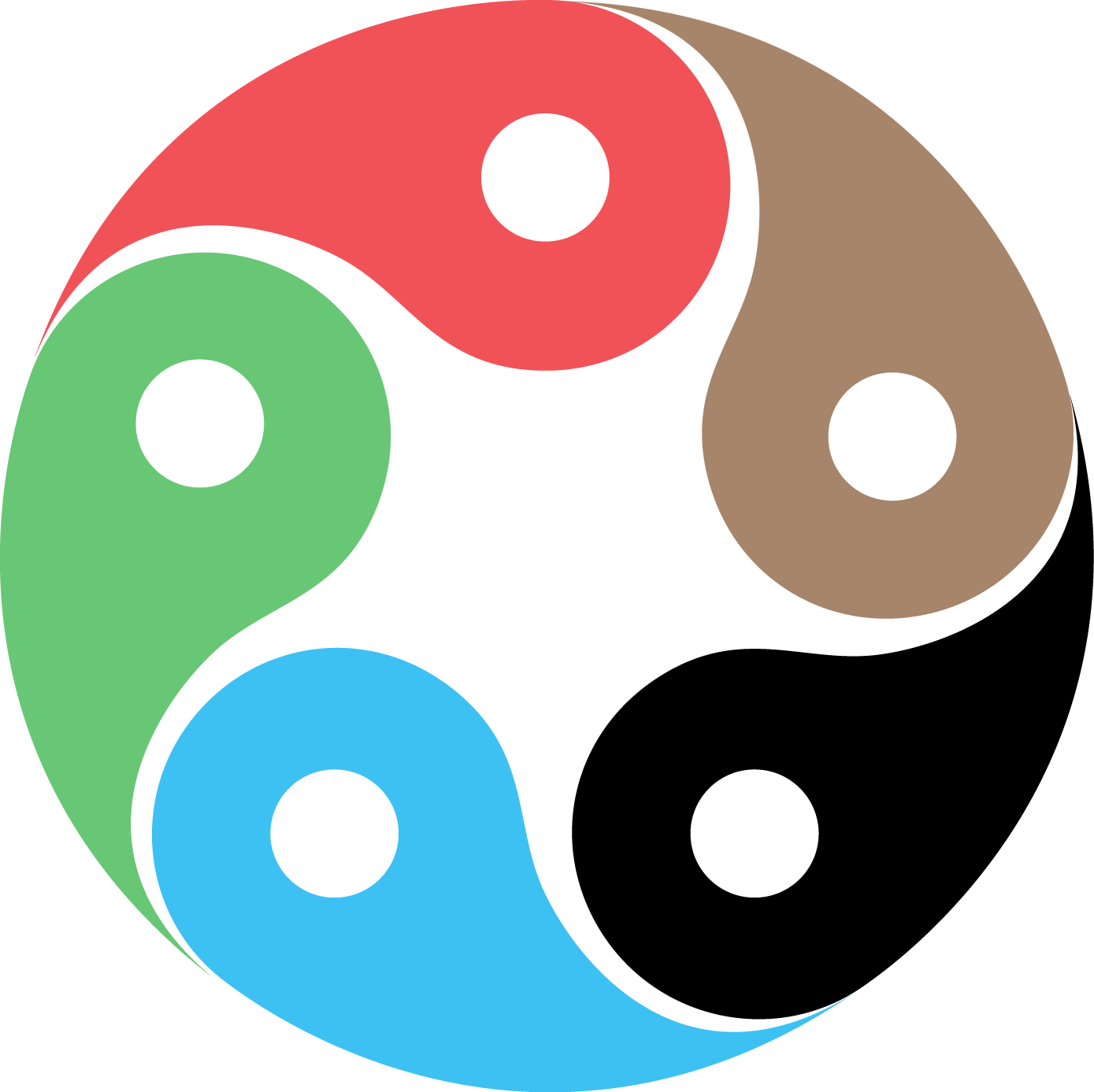 Zentao symbol as evolution of the Tao (Yin Yang) and the Five Elements of Feng Shui.